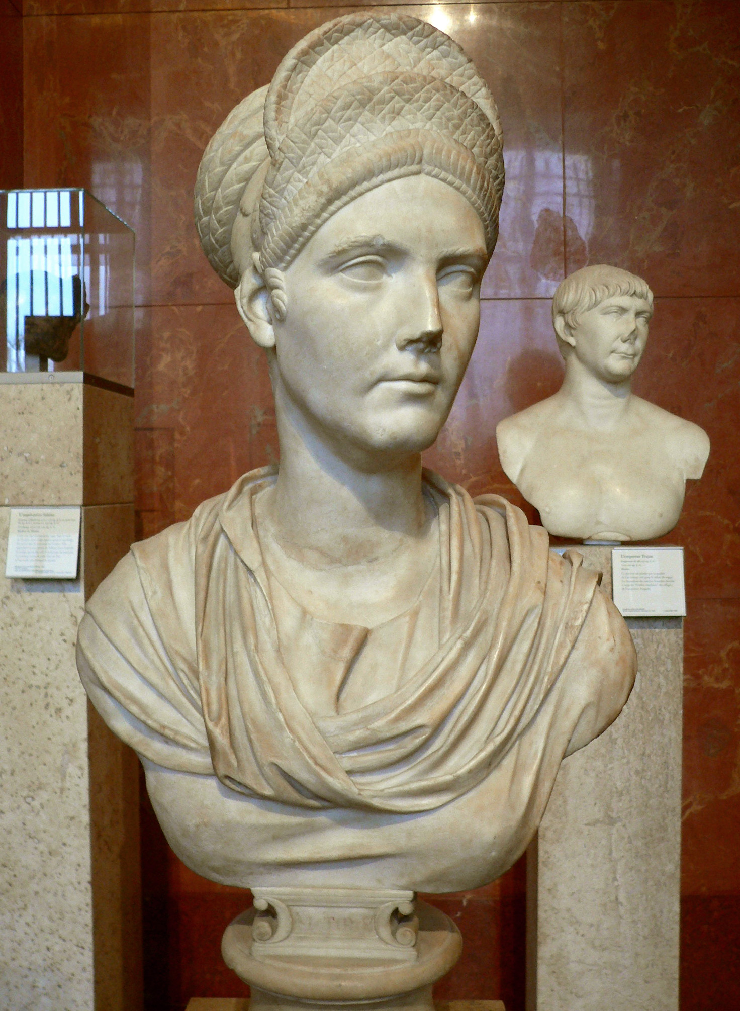 Bust of Salonina Matidia, niece of Emperor Trajan and mother-in-law of Emperor Hadrian. Marble.